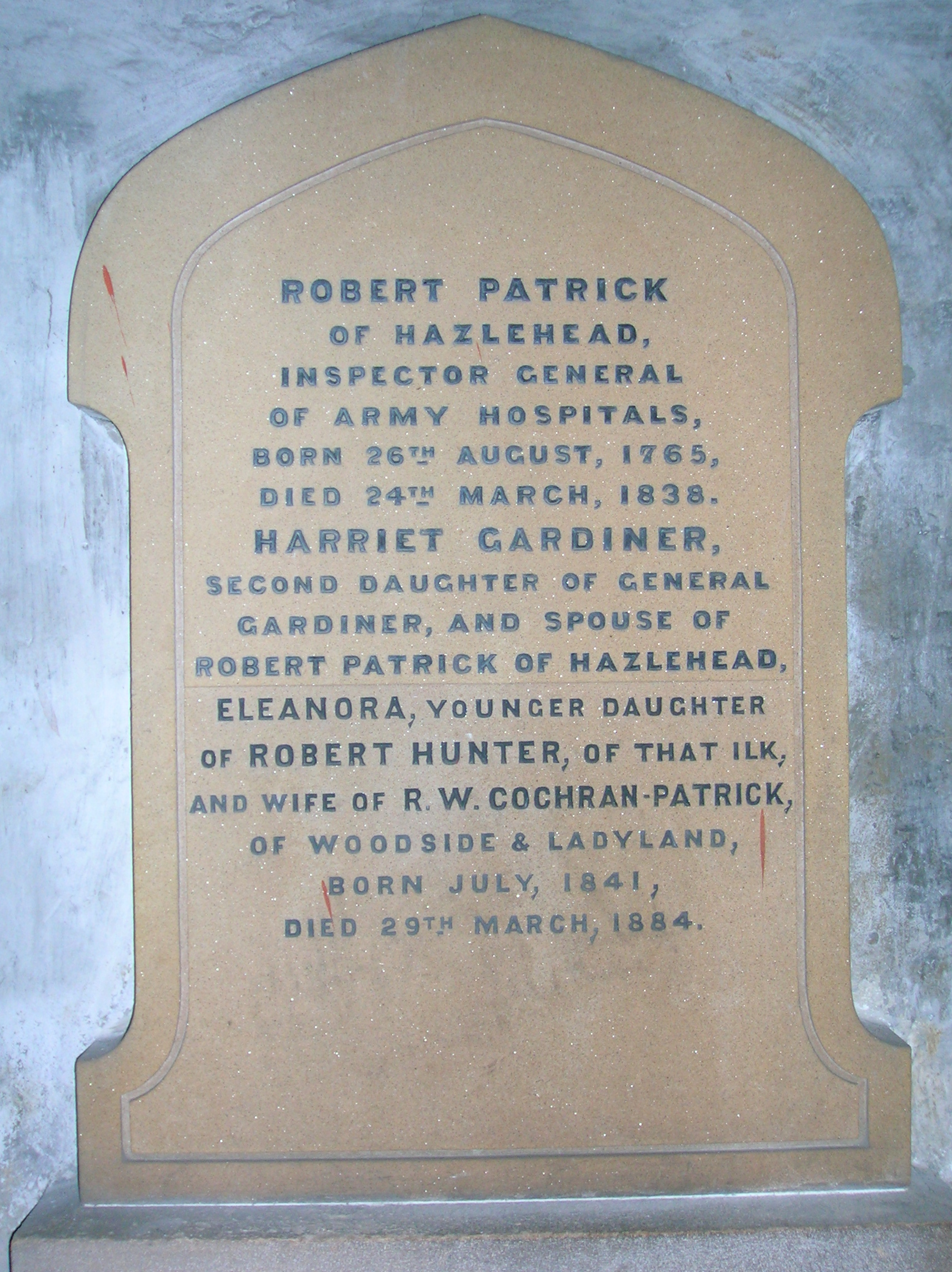 Memorial to Robert Patrick of Hazlehead in Beith old kirk, North Ayrshire, Scotland.